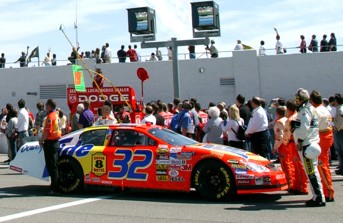 NASCAR drivers Jason Leffler #11 and Bobby Hamilton, Jr. #32 before the start of the 2005 NASCAR NEXTEL Cup race at Las Vegas. Bobby Hamilton, Jr. is the short man at the front of the #32 car.